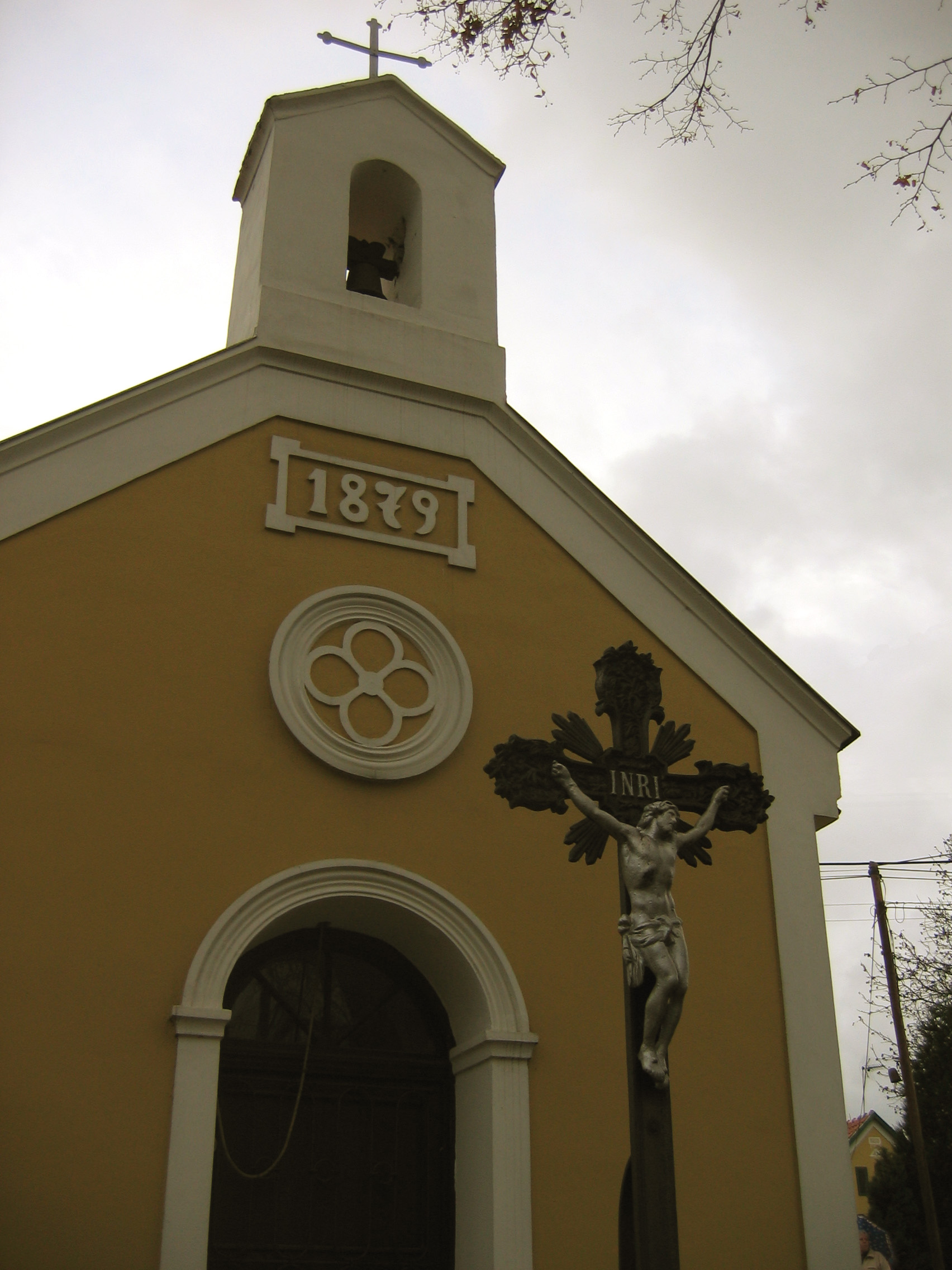 St Francis of Assisi chapel in Bojanovice, Prague-West District, Czech Republic.